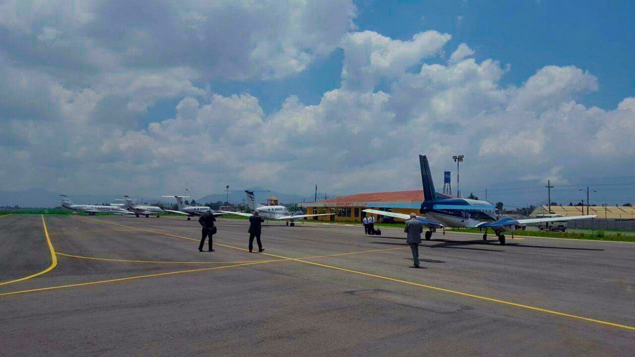 Quetzaltenango International Airport, Guatemala